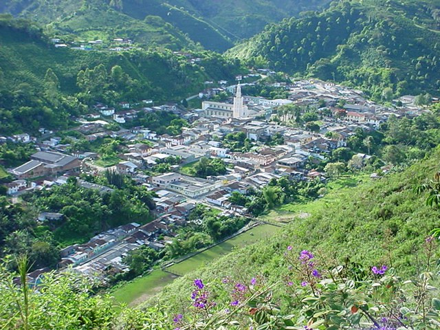 Myself, picture taken on spot